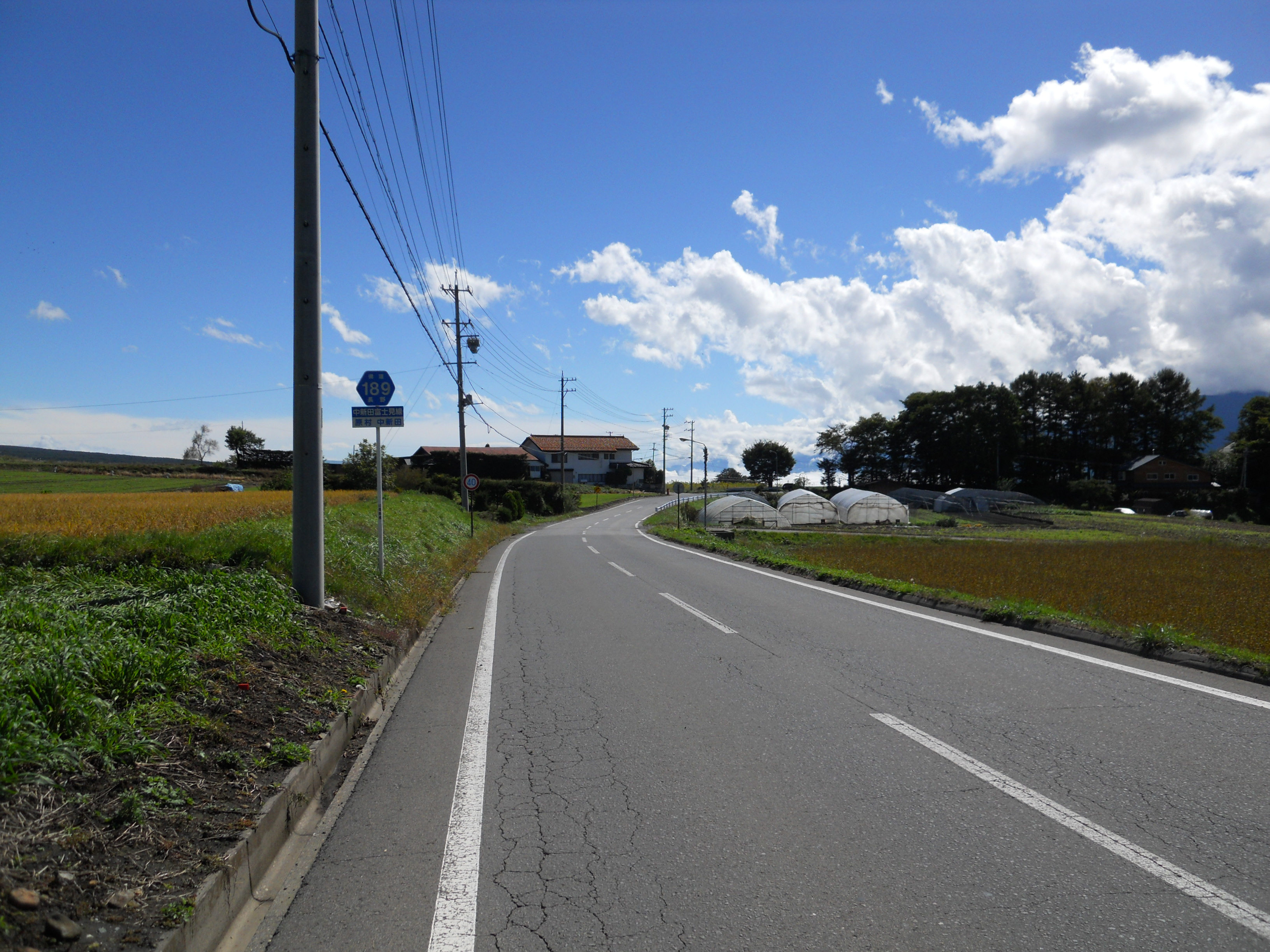 The Nagano Prefectural Road Route 189 in Nakashinden, Hara Village